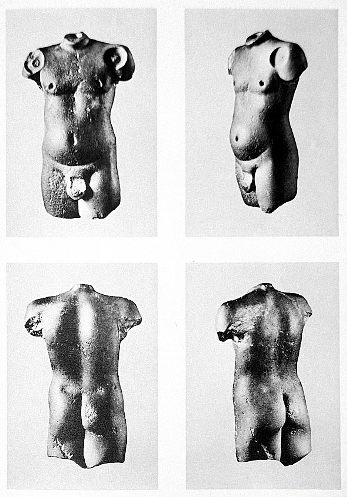 Harappa male torso. The discoverer Vats claims a Harappan date, but Marshall considers this is probably historical, dating to the Gupta period Criticism of Harappa male torse date